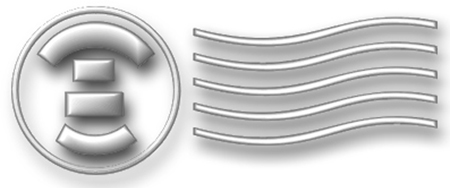 US Navy Postal Clerk (PC). A postal cancellation mark.